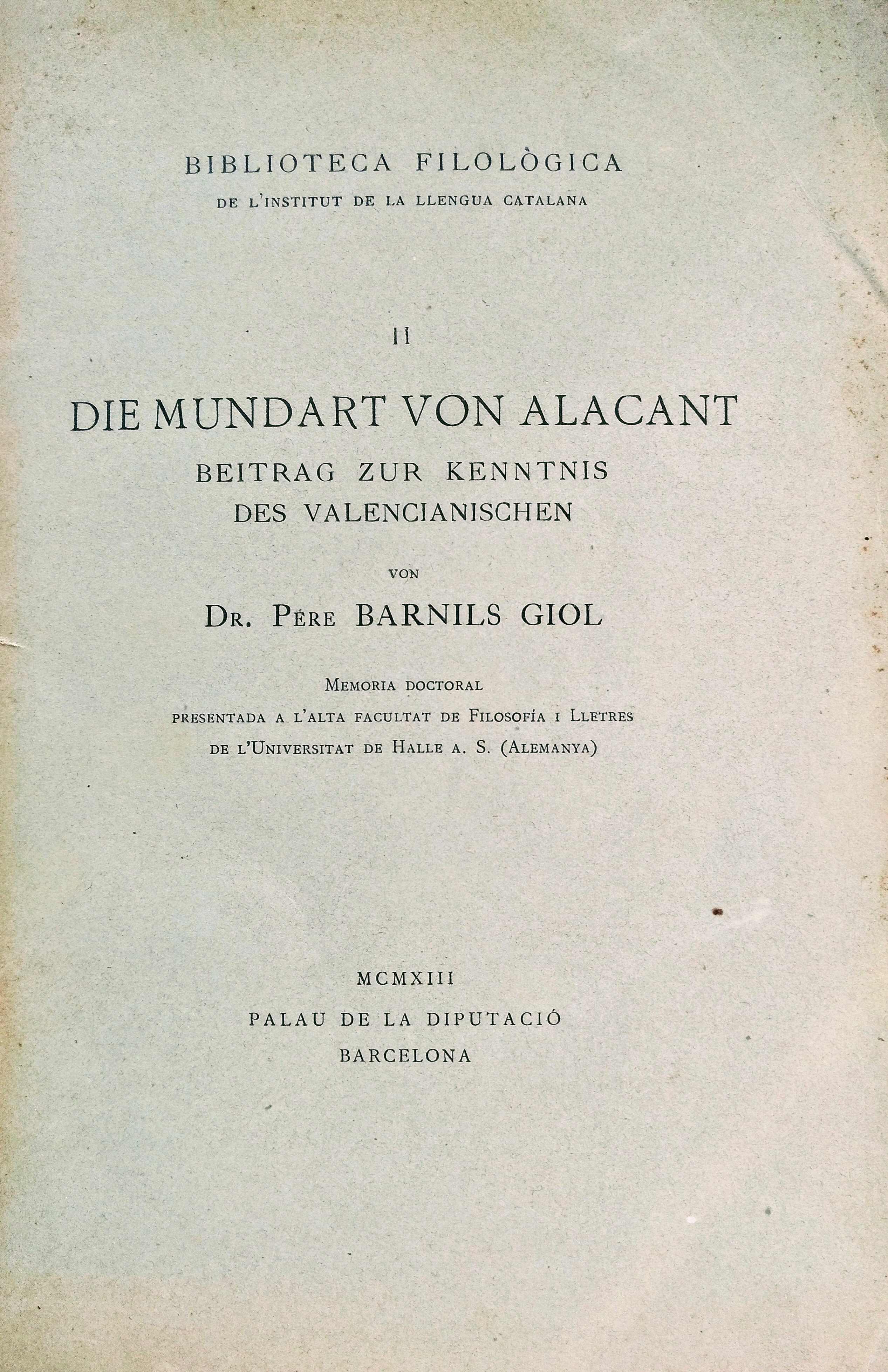 Cover of "Die Mundart von Alacant" (The dialect of Alacant), by Pere Barnils (1913).